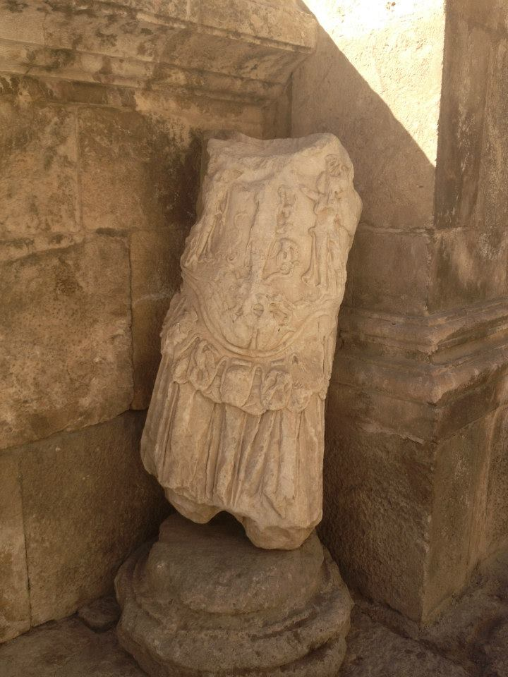 تمثال روماني ناقص